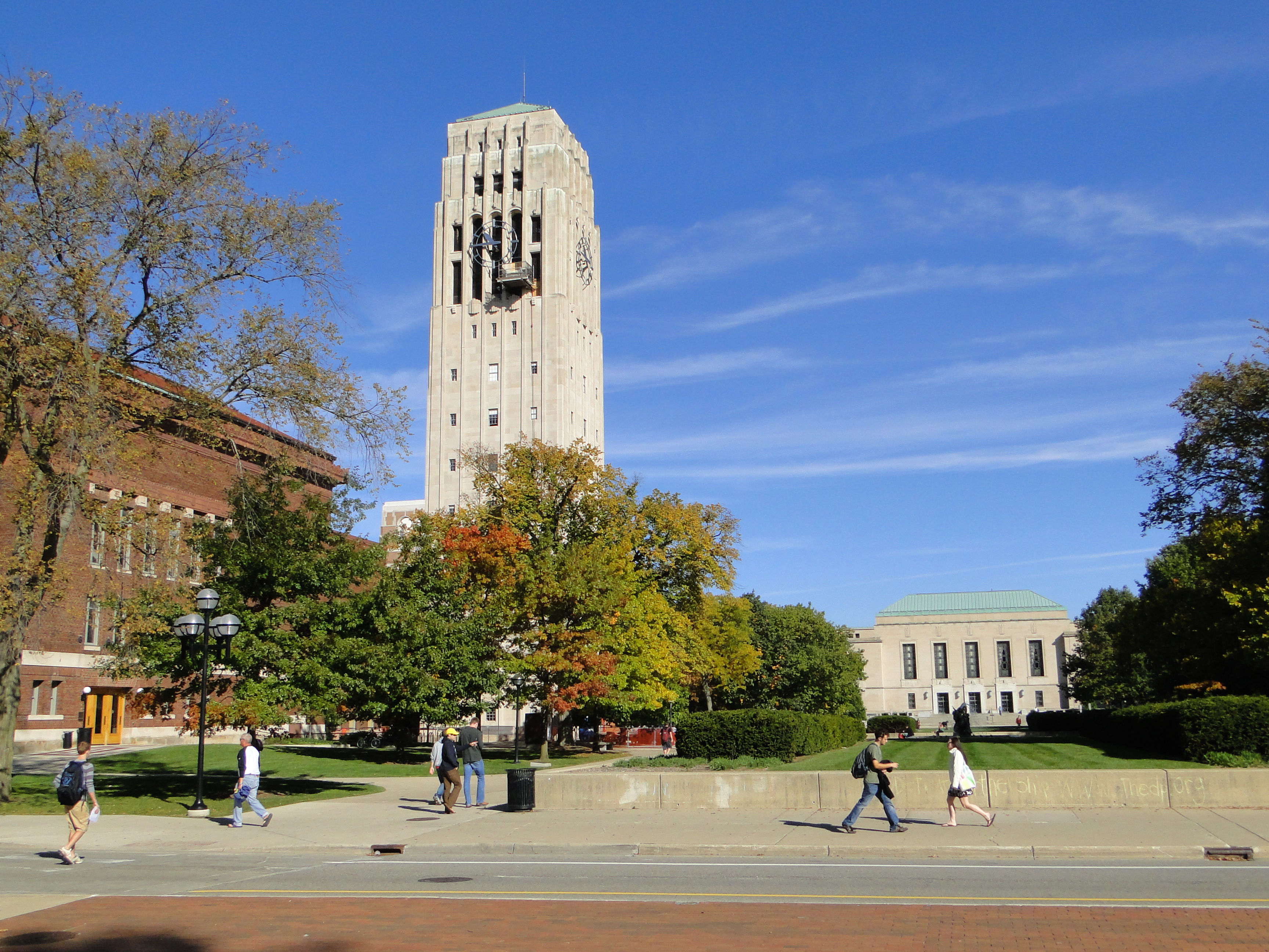 Burton Memorial Tower, Ann Arbor, Michigan